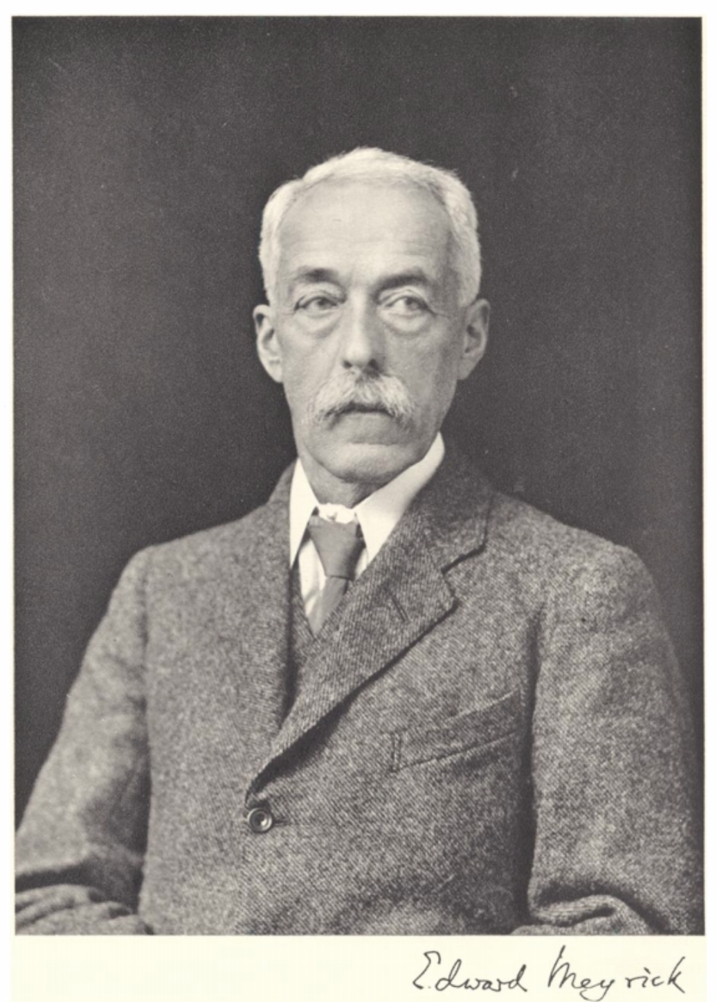 A photograph of Edward Meyrick included in his obituary, undated, so at least prior to his death in 1938.